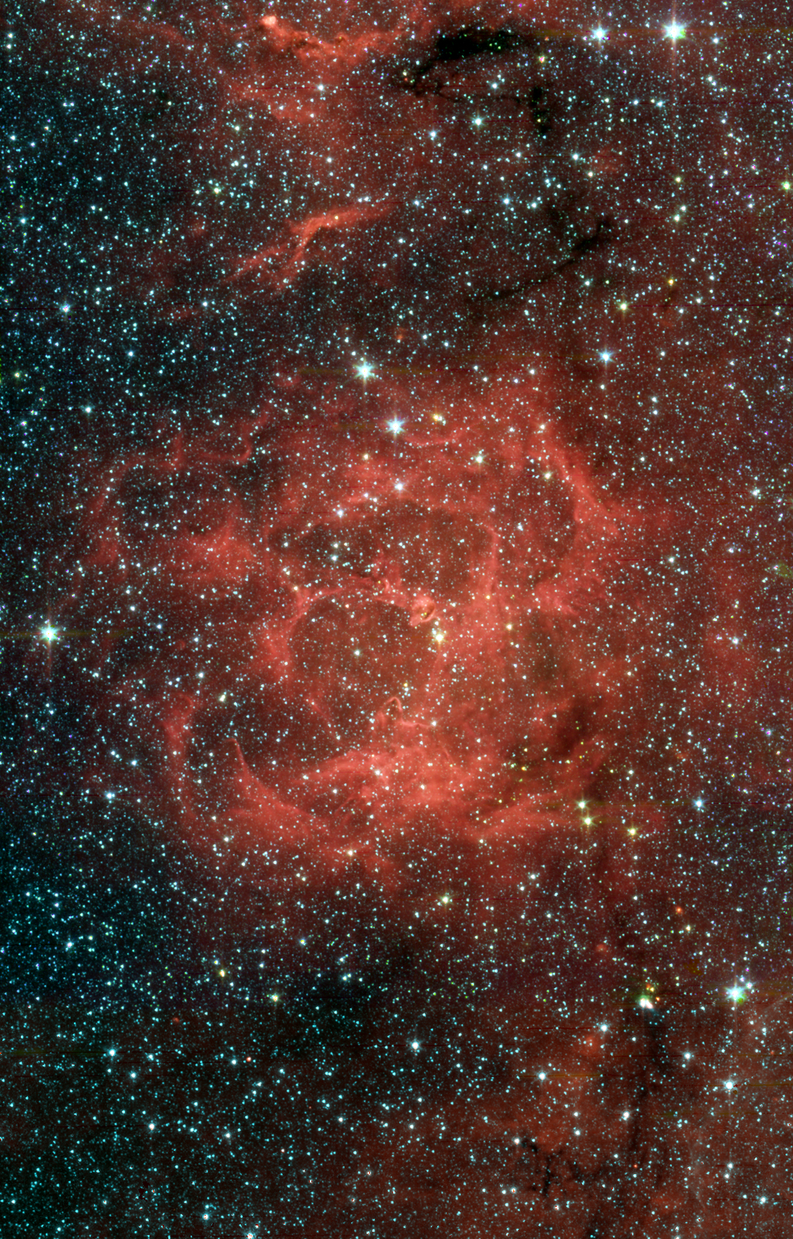 The glowing Trifid Nebula is revealed in an infrared view from NASA's Spitzer Space Telescope. The Trifid Nebula is a giant star-forming cloud of gas and dust located 5,400 light-years away in the constellation Sagittarius. The false-color Spitzer image reveals a different side of the Trifid Nebula. Where dark lanes of dust are visible trisecting the nebula in a visible-light picture, bright regions of star-forming activity are seen in the Spitzer picture. All together, Spitzer uncovered 30 massive embryonic stars and 120 smaller newborn stars throughout the Trifid Nebula, in both its dark lanes and luminous clouds. These stars are visible in the Spitzer image, mainly as yellow or red spots. Embryonic stars are developing stars about to burst into existence. Ten of the 30 massive embryos discovered by Spitzer were found in four dark cores, or stellar "incubators," where stars are born. Astronomers using data from the Institute of Radioastronomy millimeter telescope in Spain had previously identified these cores but thought they were not quite ripe for stars. Spitzer's highly sensitive infrared eyes were able to penetrate all four cores to reveal rapidly growing embryos. Astronomers can actually count the individual embryos tucked inside the cores by looking closely at this Spitzer image taken by its infrared array camera (IRAC). This instrument has the highest spatial resolution of Spitzer's imaging cameras. The embryos are thought to have been triggered by a massive "type O" star, which can be seen as a white spot at the center of the nebula. Type O stars are the most massive stars, ending their brief lives in explosive supernovas. The small newborn stars probably arose at the same time as the O star, and from the same original cloud of gas and dust. This Spitzer mosaic image uses data from IRAC showing light of 3.6 microns (blue), 4.5 microns (green), 5.8 microns (orange) and 8.0 microns (red).